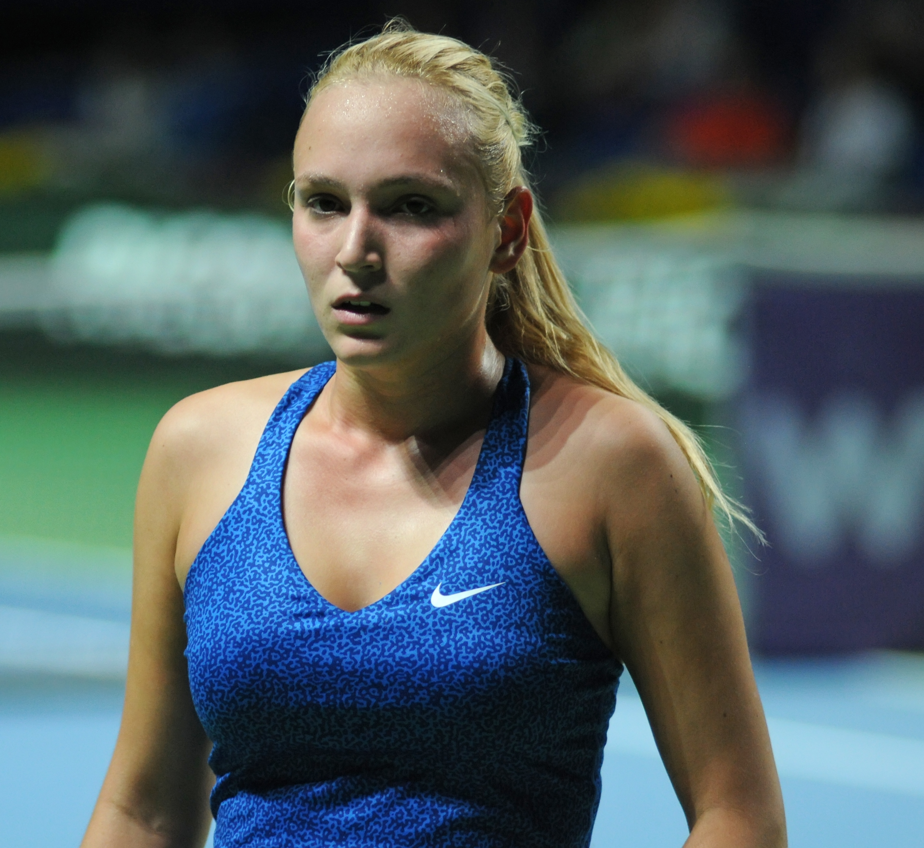 Donna Vekić at the 2014 Kremlin Cup